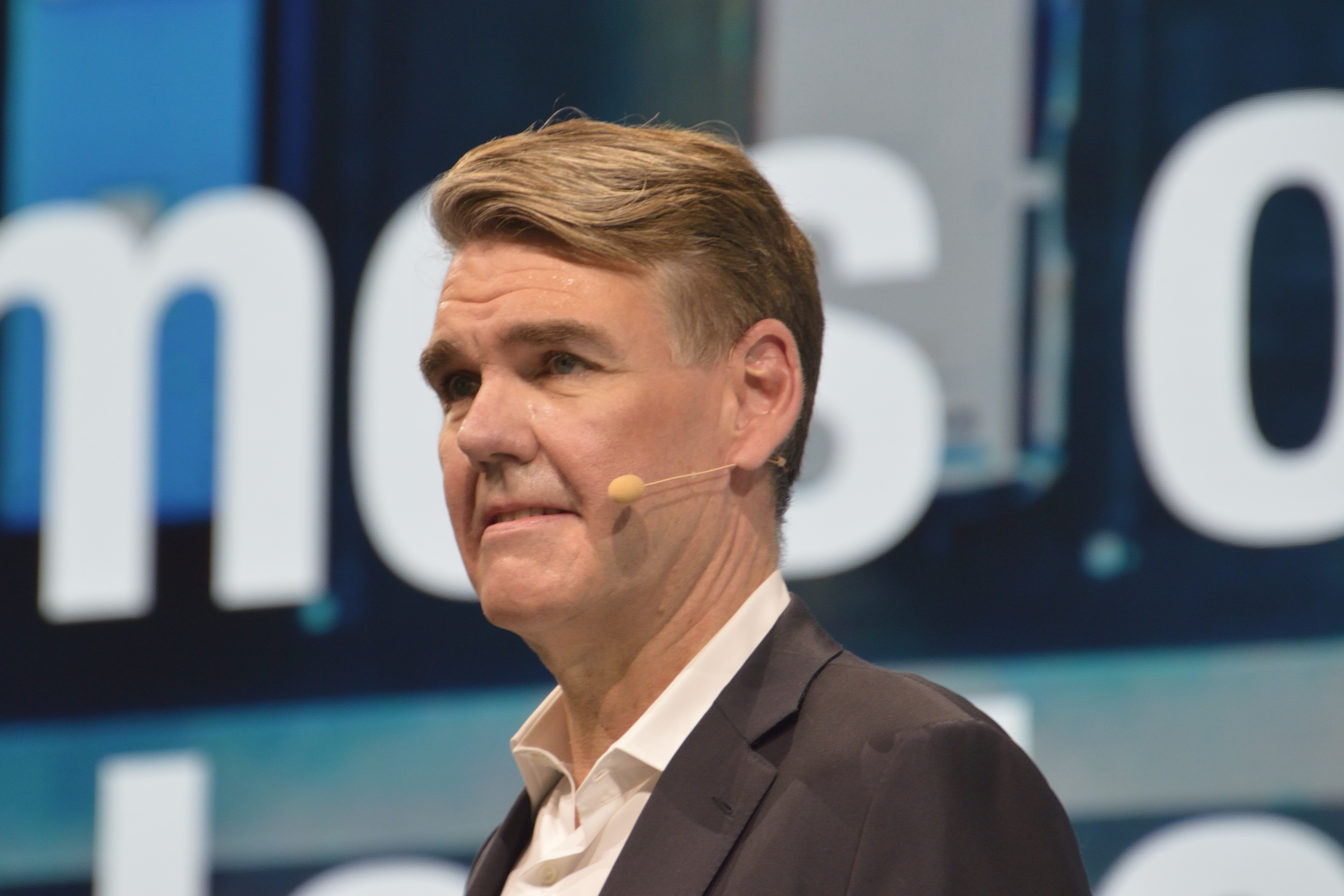 Joachim Drees, Chief executive officer of MAN Truck & Bus AG. Photo taken at IAA 2018. If you need a raw image format, you may leave a message: here.